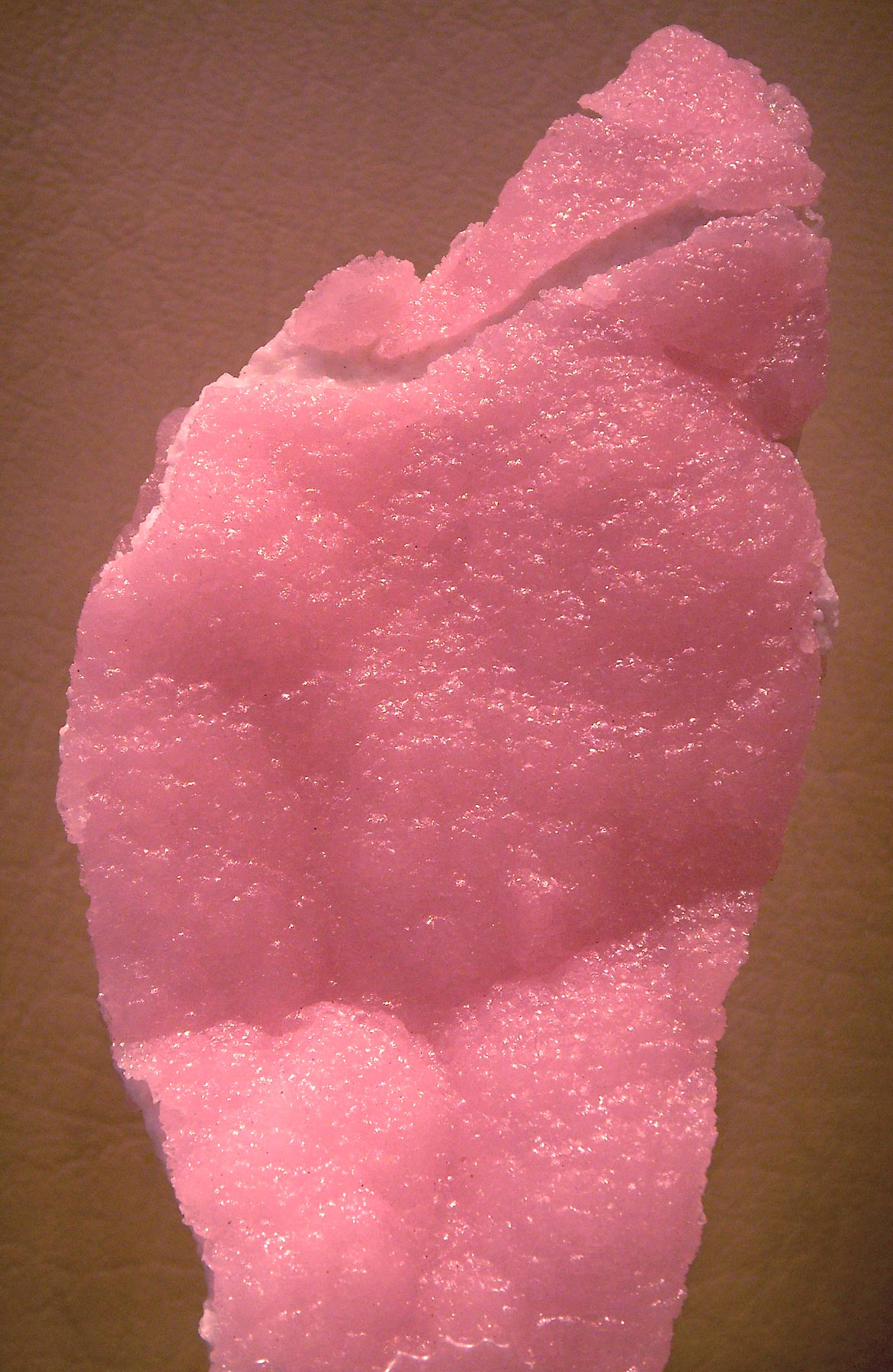 Smithsonite - Pink Variety